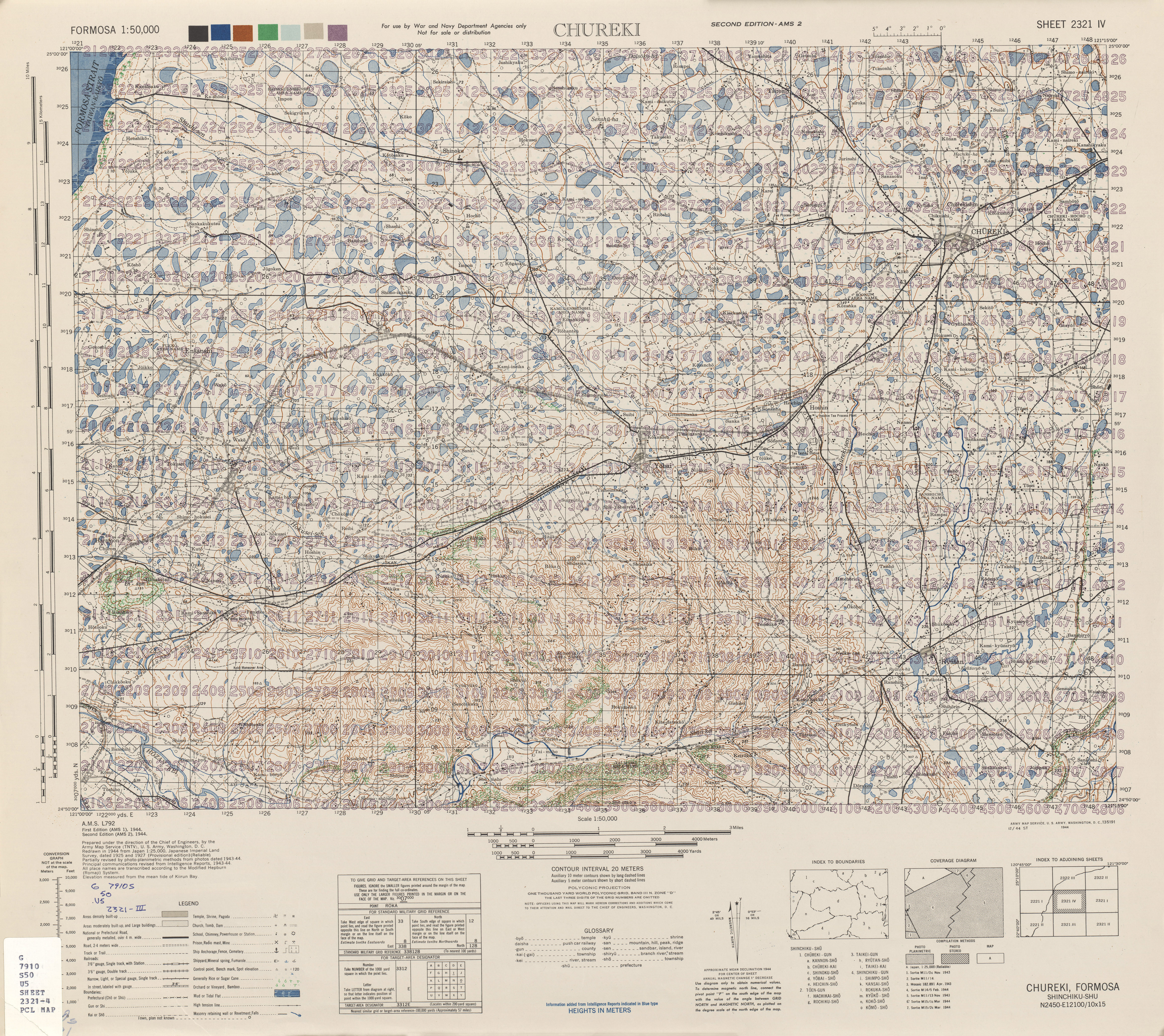 Map from Formosa (Taiwan) 1:50,000 AMS Series L792